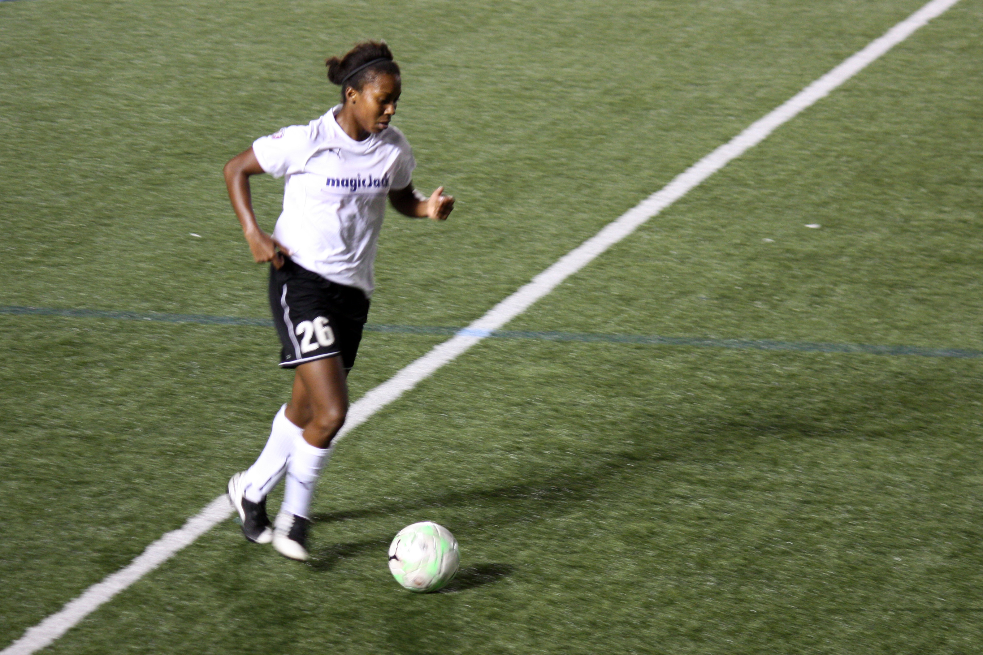 Nikki Washington takes the ball up the right side during magicJack's 2-0 win over the Boston Breakers, Saturday, August 6 at Harvard Stadium in Boston, Mass.